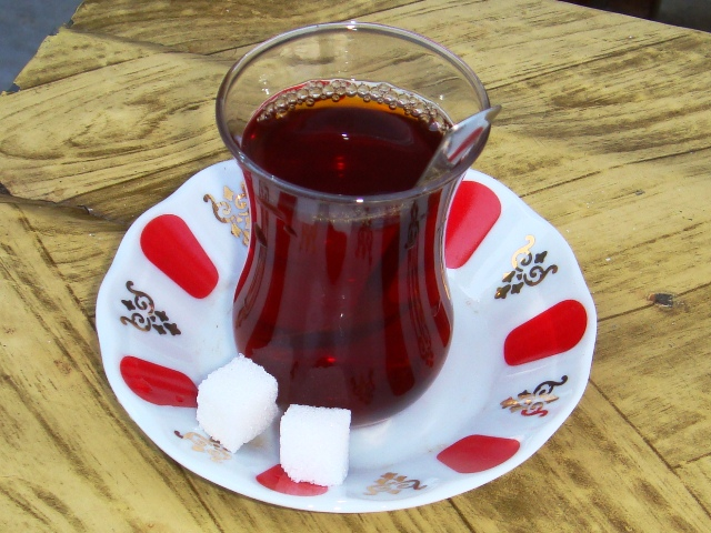 A Turkish styled tea, Istanbul